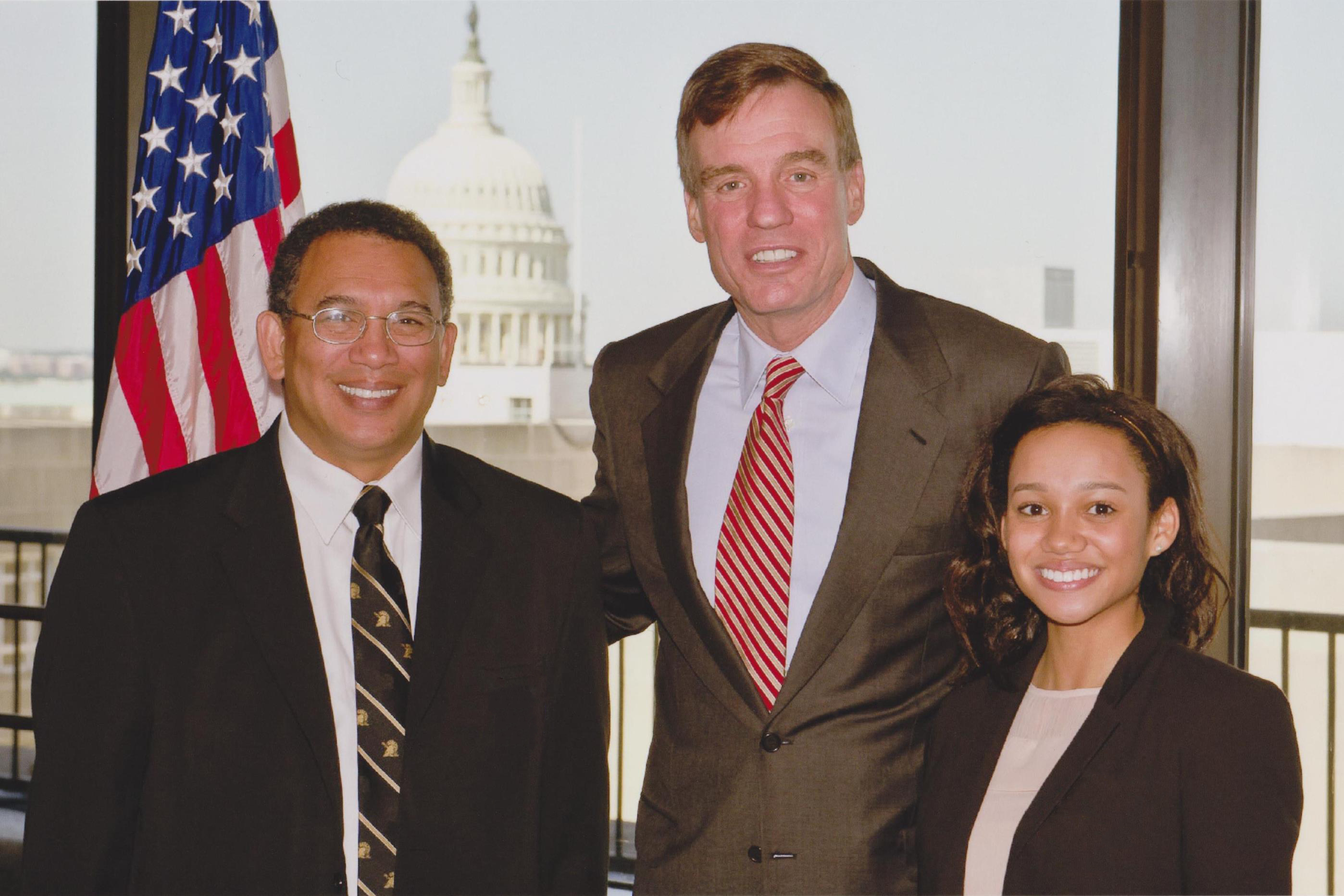 United States Senator Mark Warner (D-VA) greets Brigadier General Albert Bryant, Jr, U.S. Army (ret), United States Military (USMA) class of 1974, and daughter Veronica Bryant, USMA class of 2016.